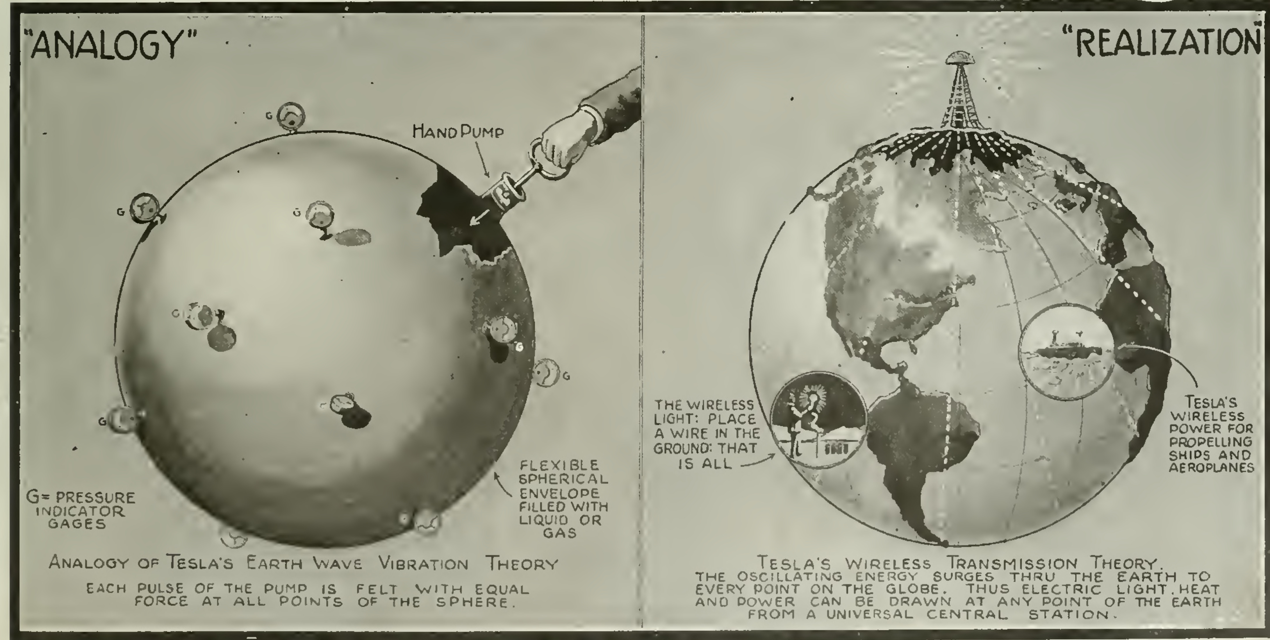 Illustration of Nikola Tesla's article in 1919 issue of "Electrical Experimenter"